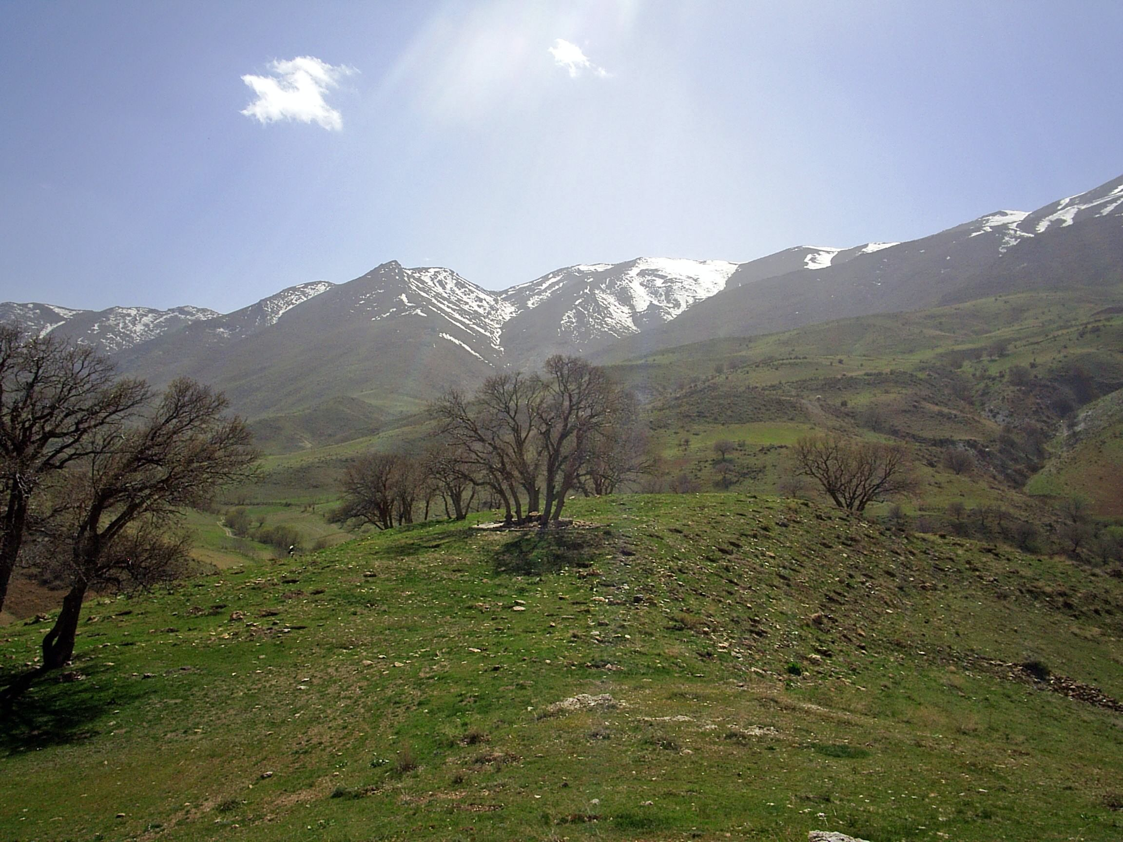 Geography of Nahavand county.